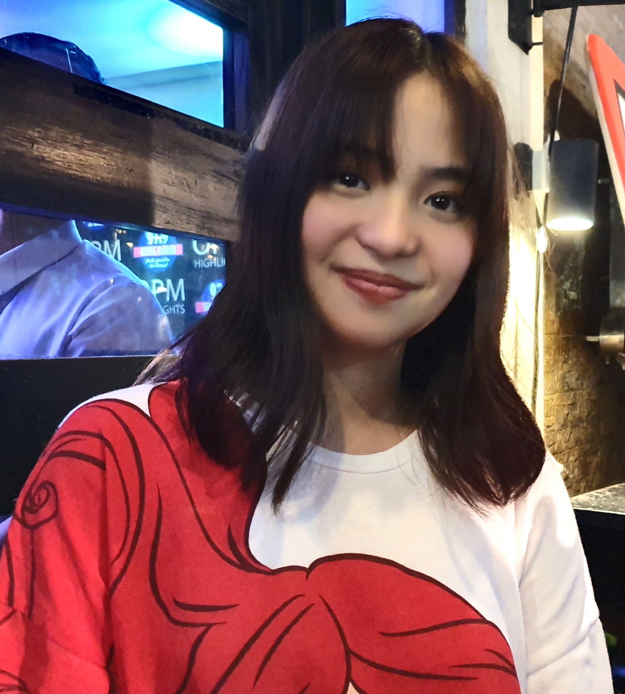 Sharlene San Pedro in The Music Hall @ MetroWalk for the 97.9 Home Radio 25th Anniversary